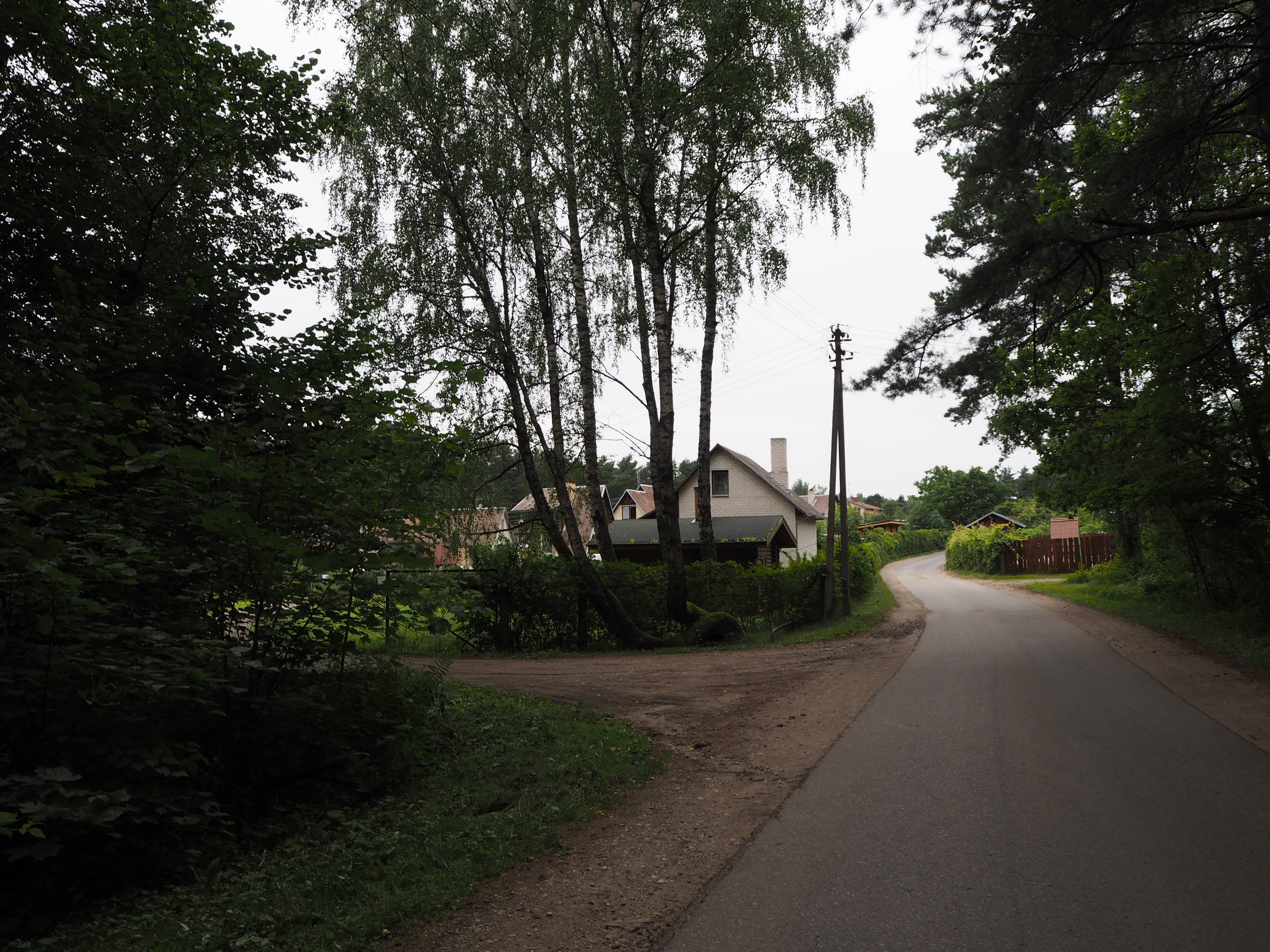 Street in Juodiškės, Molėtai District Municipality